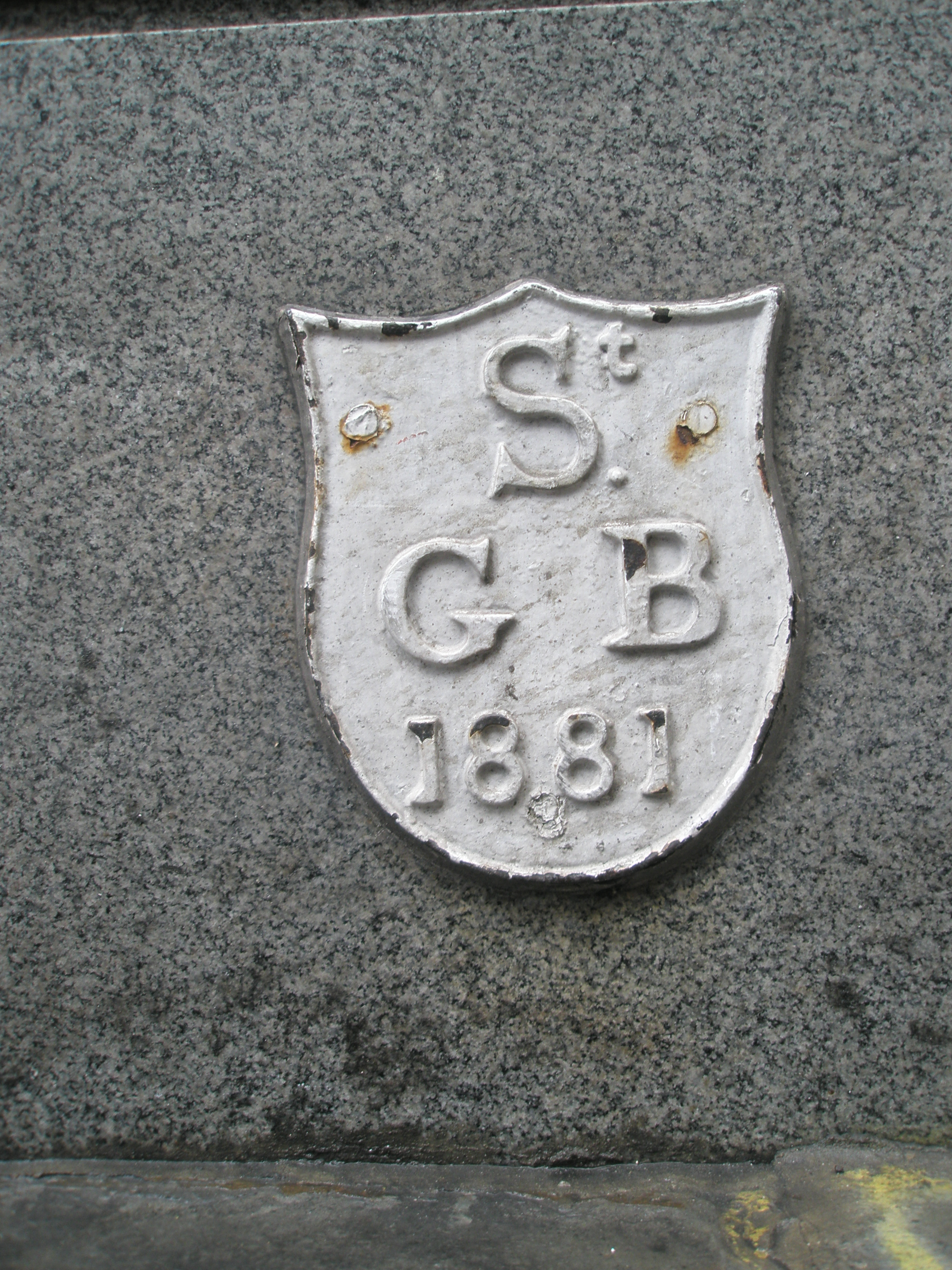 Parish boundary mark on Fish St Hill